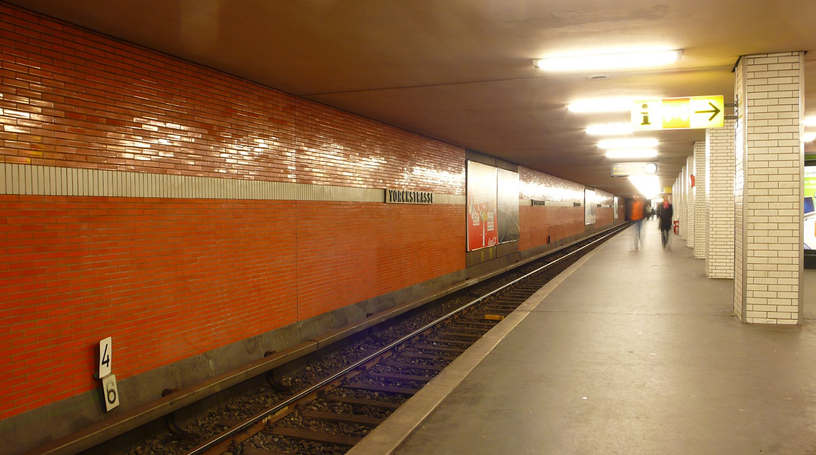 subway Yorckstr